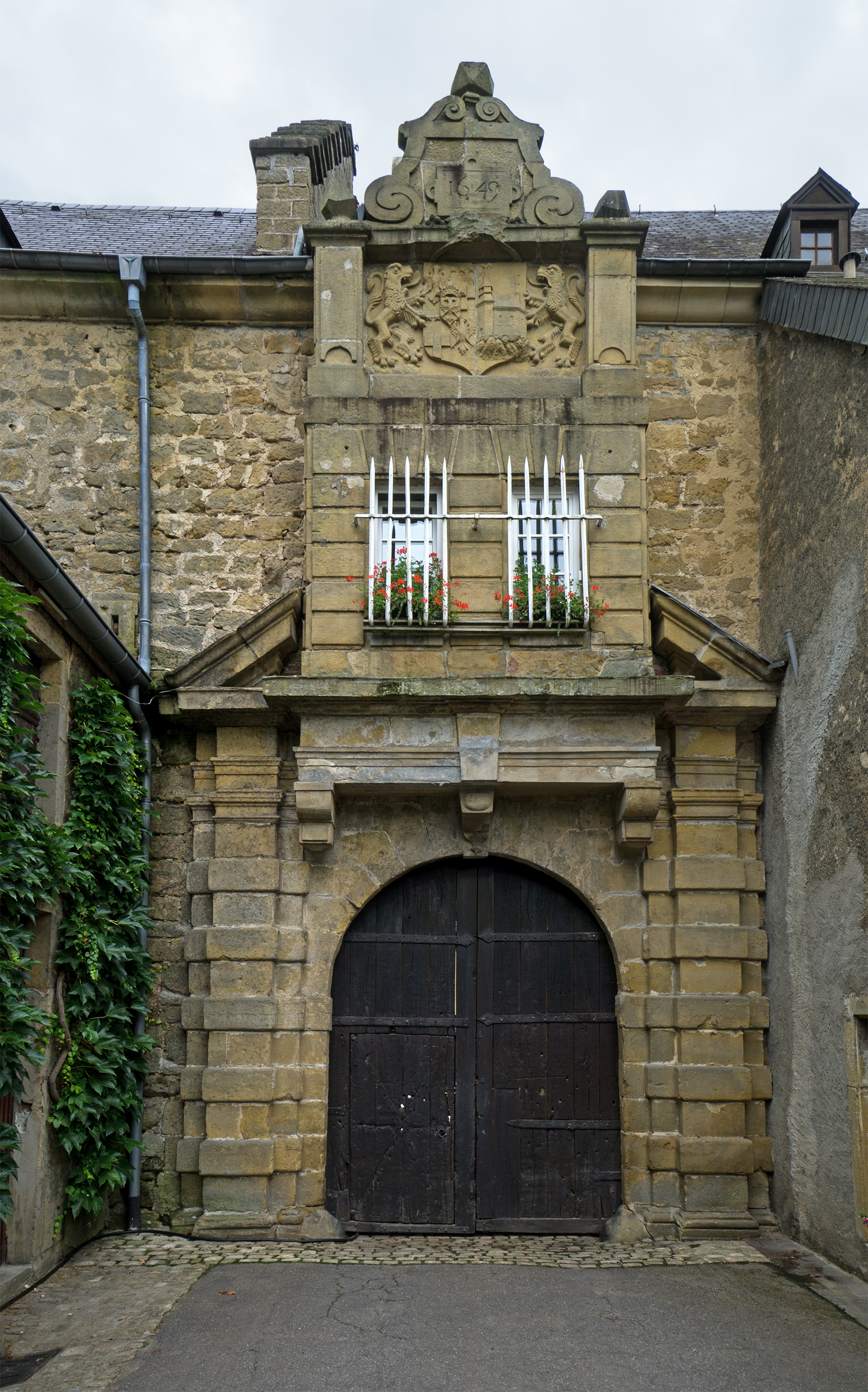 Entrance of the new castle of Beaufort